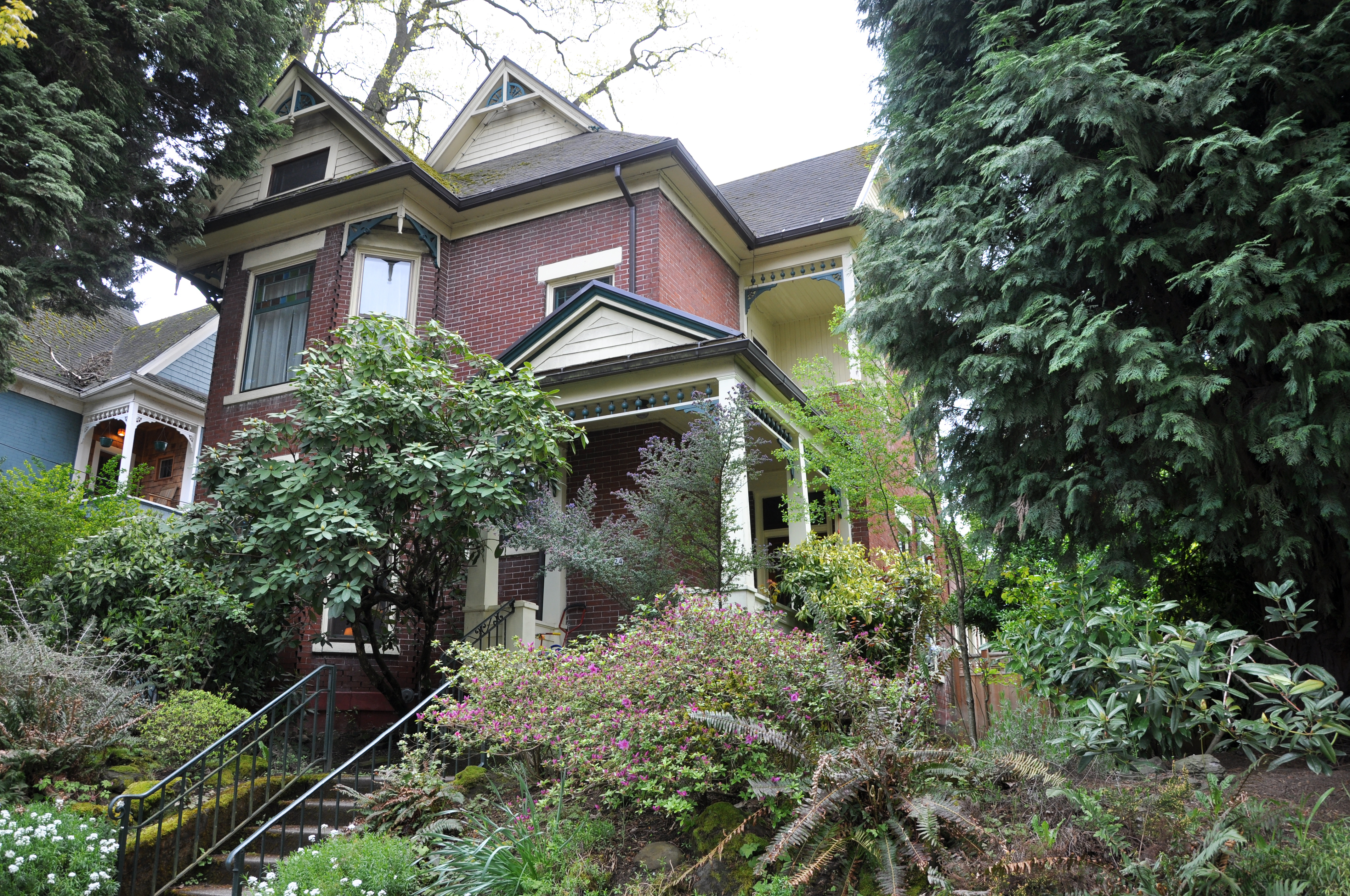 Buckler–Henry House, on the National Register of Historic Places (NRHP), in Portland in the U.S. state of Oregon. NRHP reference number is 80003358.